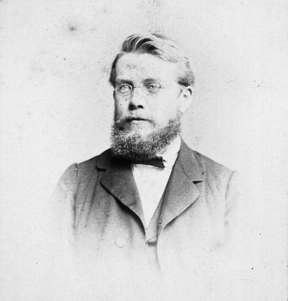 Gustav Schwalbe